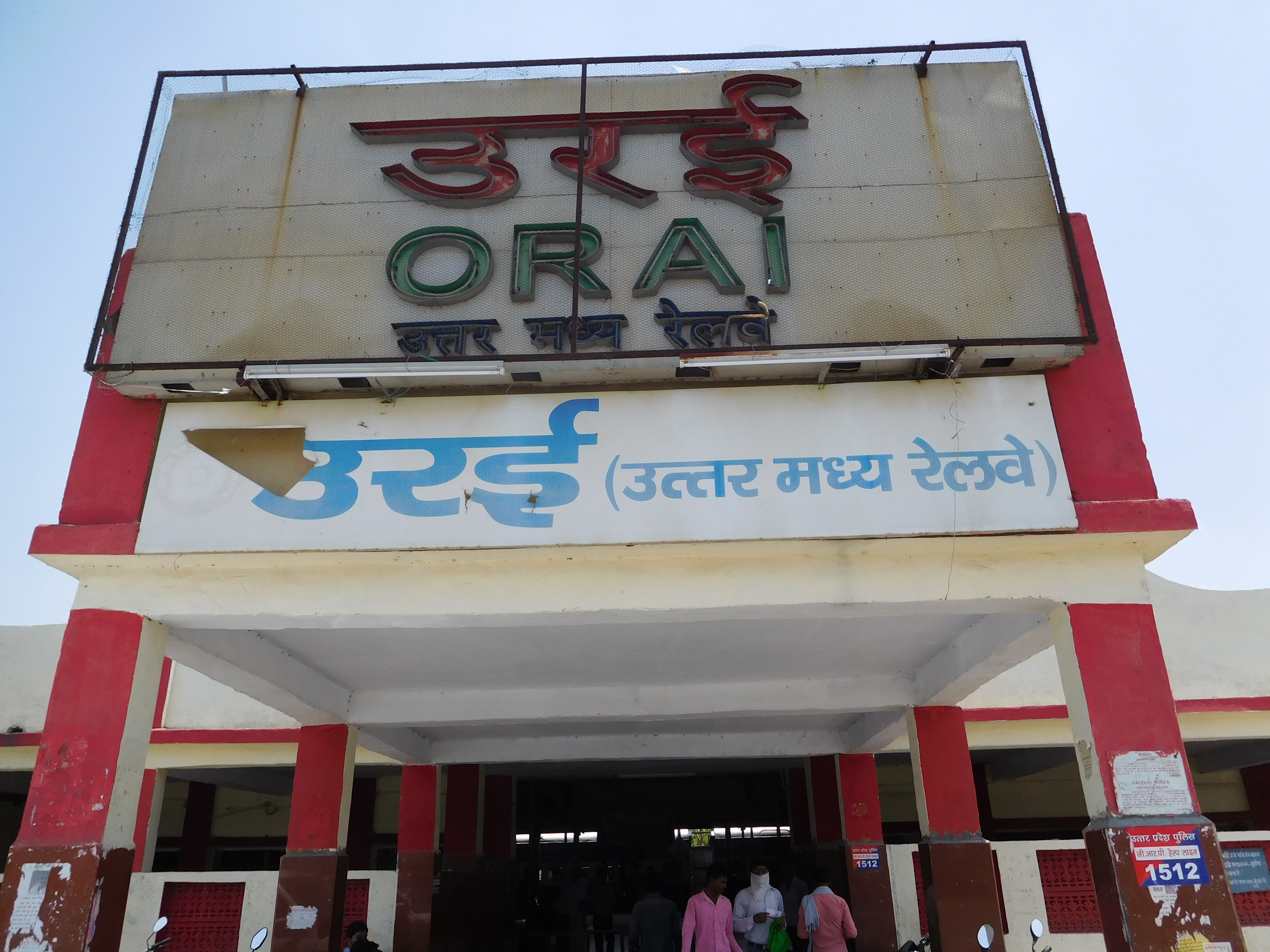 Railway Station Orai (Main view) North Central Railway,UP,India.